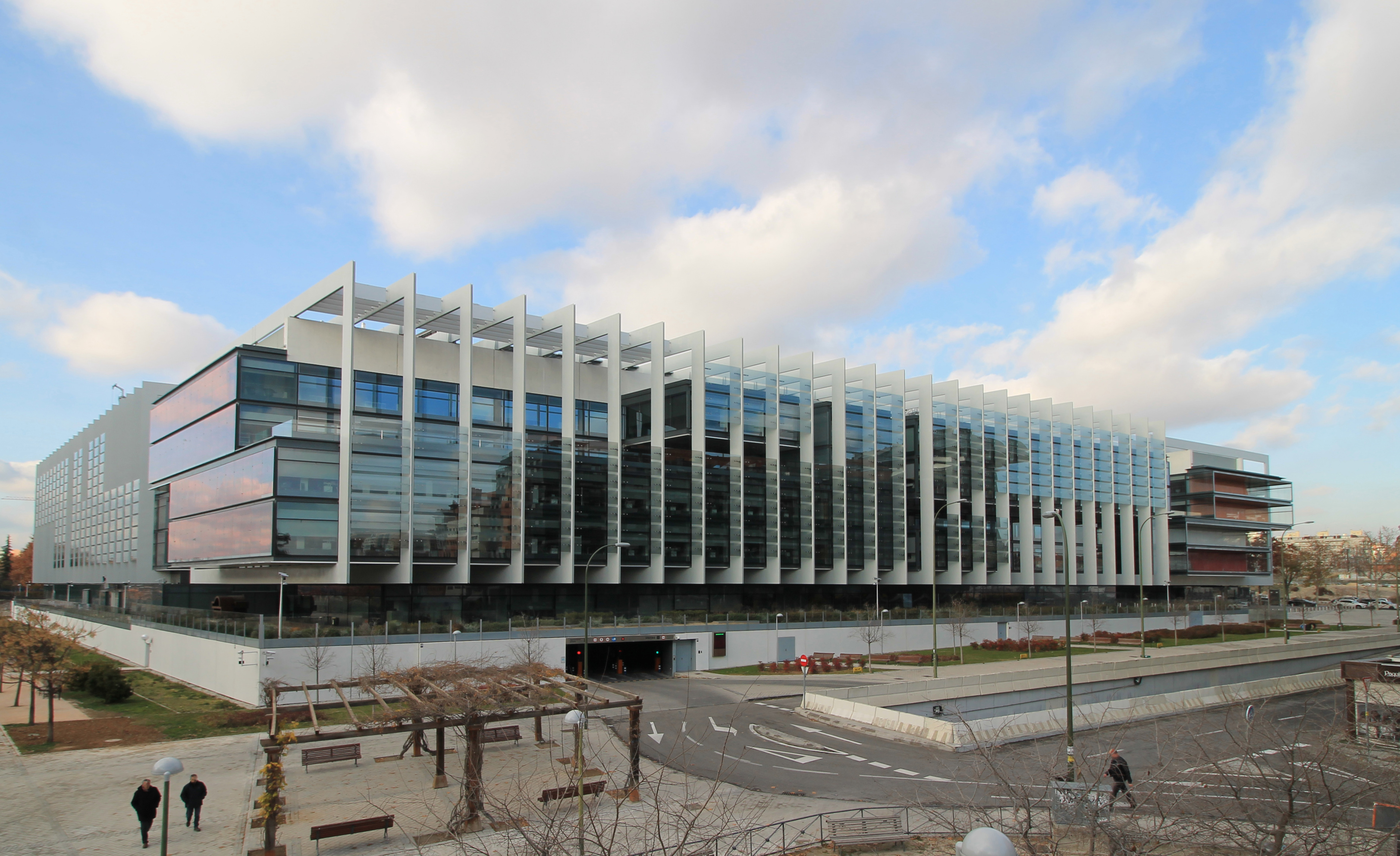 South-east façade of Repsol headquarters in Madrid (Spain).